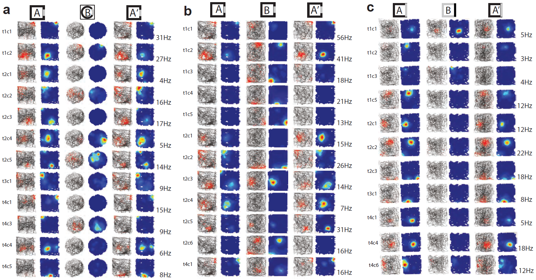 The figure shows the complete set of active CA3 cells in the experiments in Figure 1a-c (all from rat 11278). Each row shows one cell (t, tetrode; c, cell). Each pair of columns shows the trajectory of the rat (black) with spike locations (red) to the left and the colour-coded rate maps to the right (blue, 0 Hz; red, maximum rate). Peak rates are indicated to the right. a, global remapping between different boxes in a fixed location; b, global remapping between identical boxes in two different rooms; c, rate remapping after reversal of the colours of the box walls at a fixed location. All cells in each panel are from the same recording.